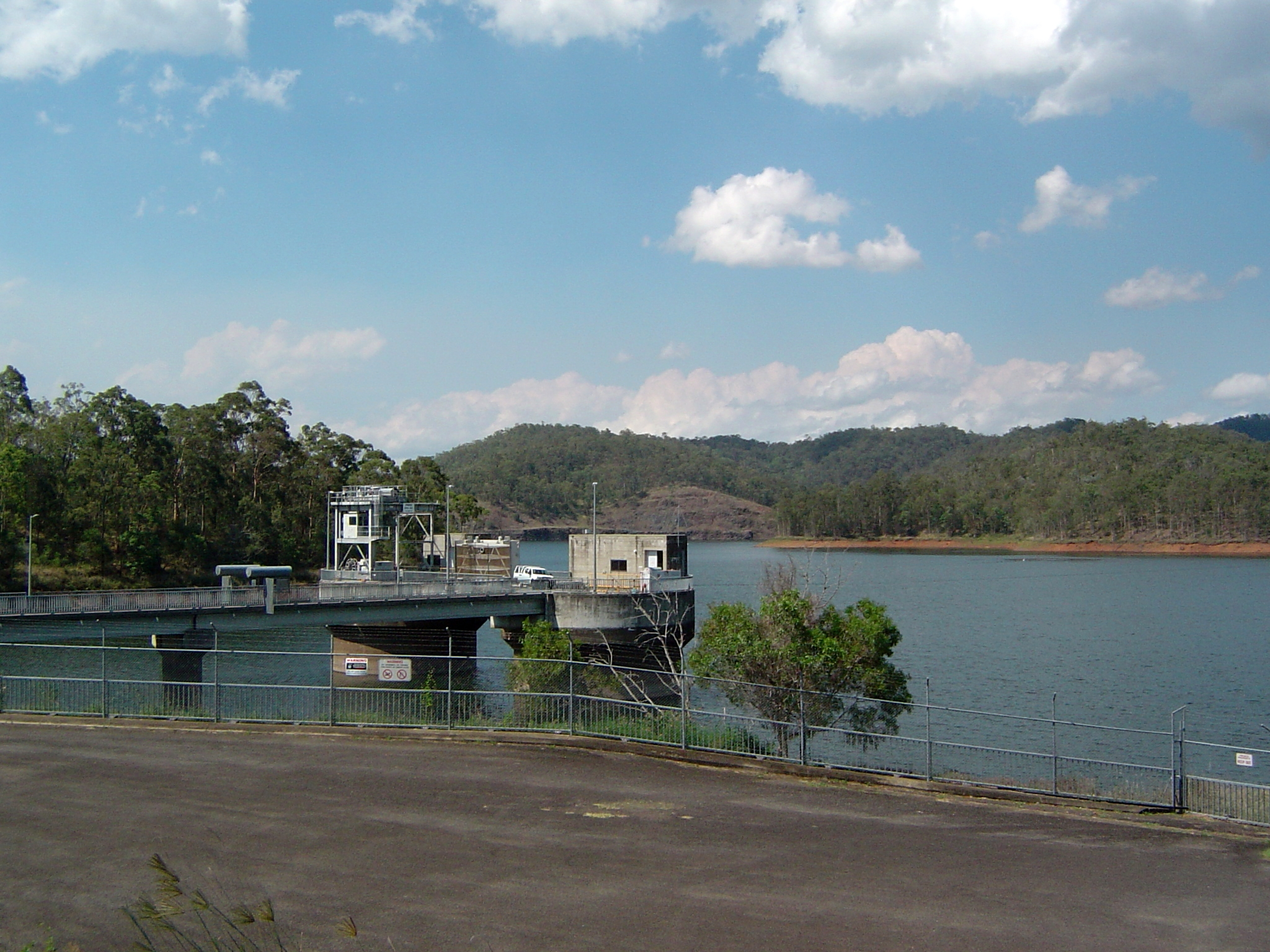 Infrastructure for Wivenhoe Power Station at Splityard Creek Dam in South East Queensland, Australia.